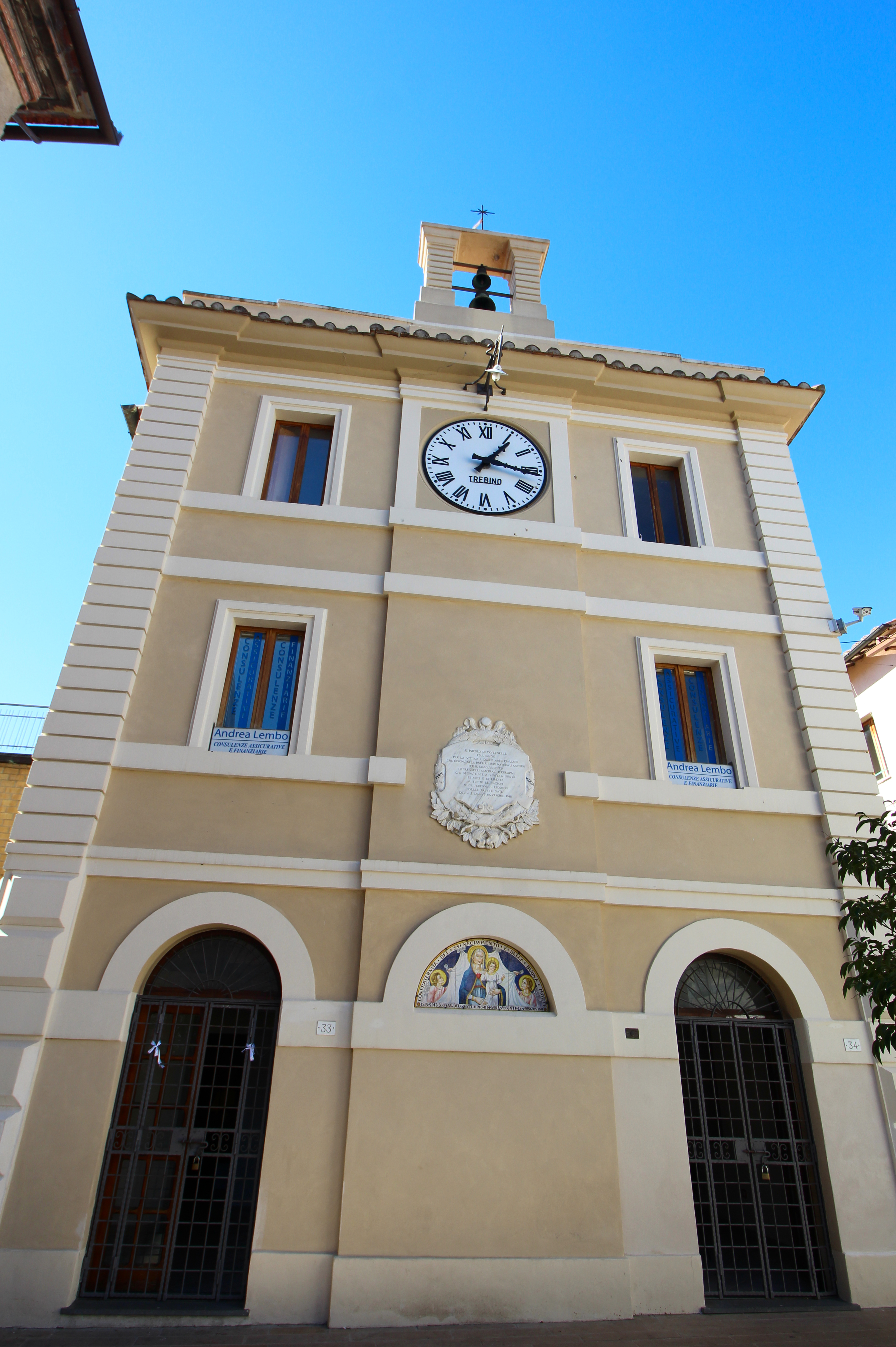 Palace Palazzo dell'Orologio, Tavernelle, hamlet of Panicale, Province of Perugia, Umbria, Italy